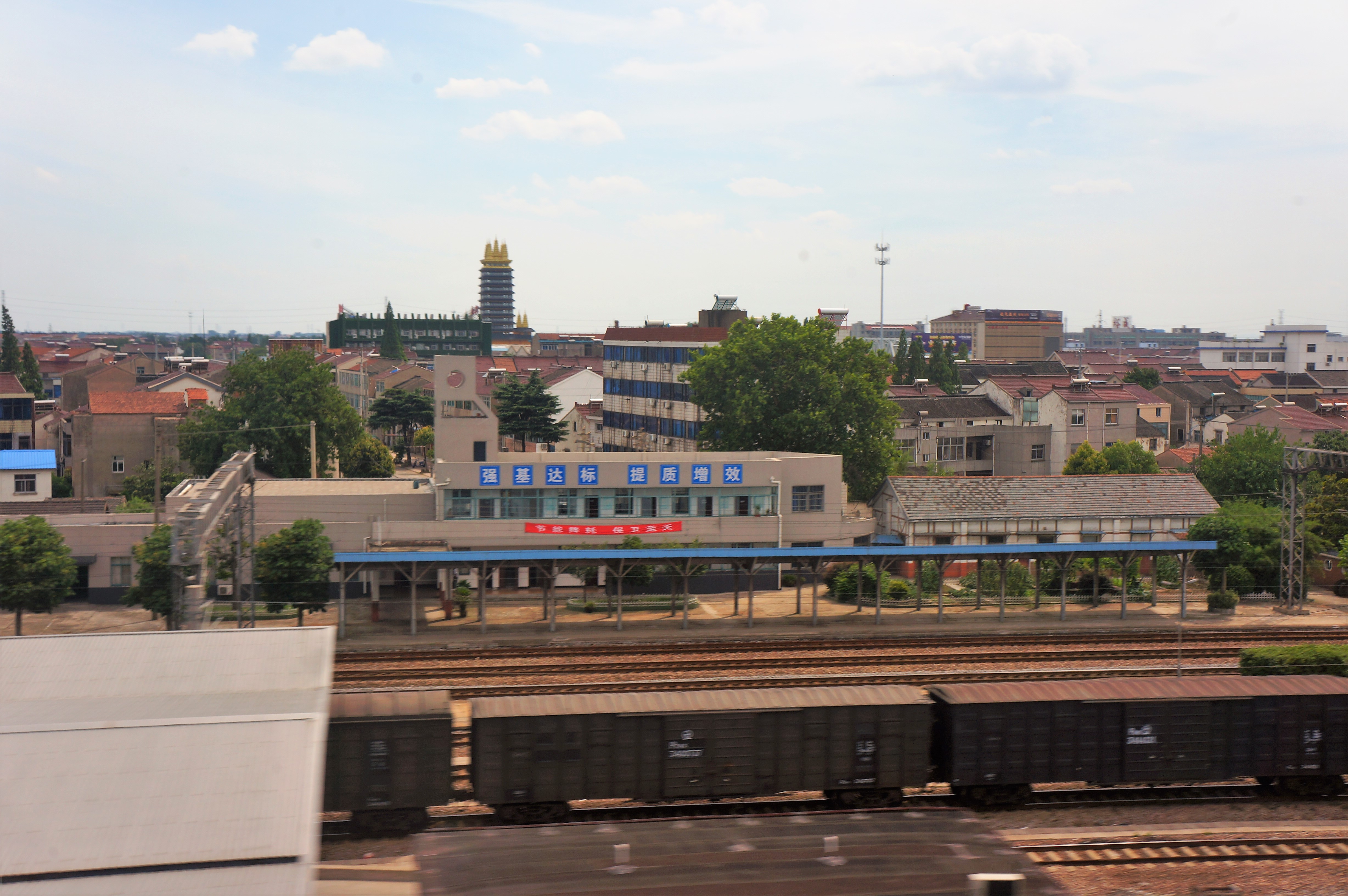 201806 Station building of Benniu Station